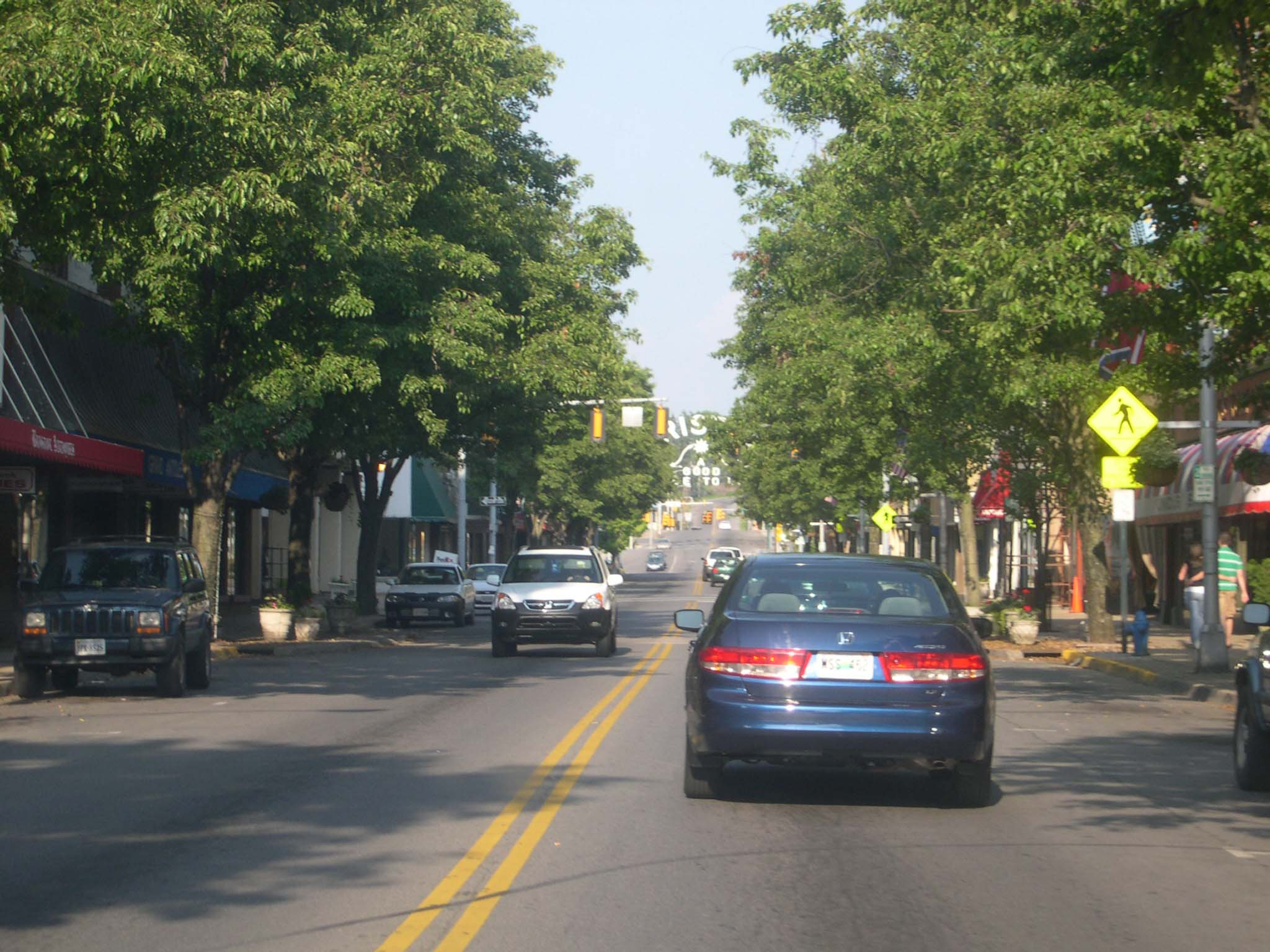 A view of State Street, which seperates the twin cities of Bristol TN and Bristol VA.